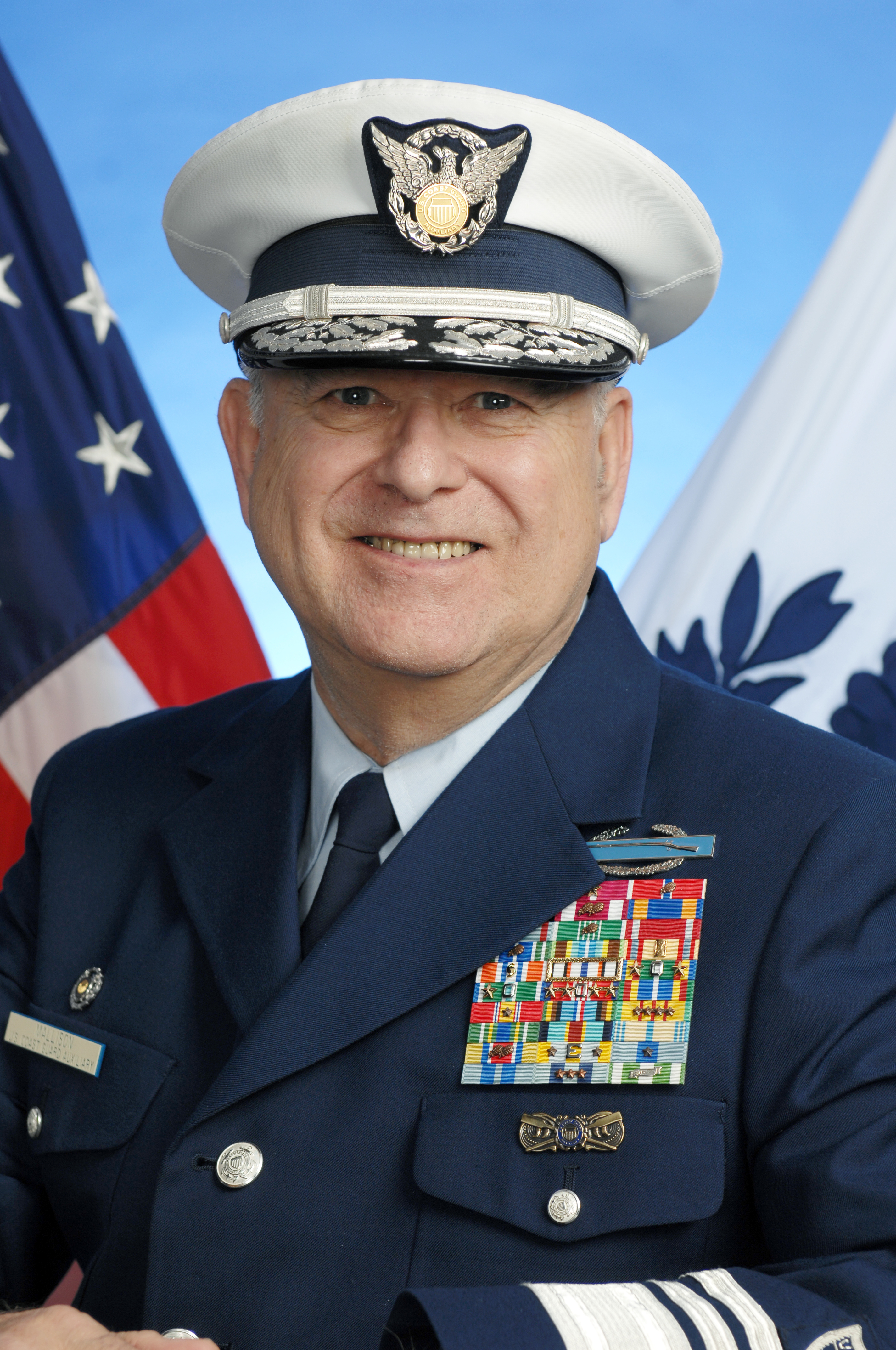 31st National Commodore of the United State Coast Guard Auxiliary, Commodore Thomas C. Mallison